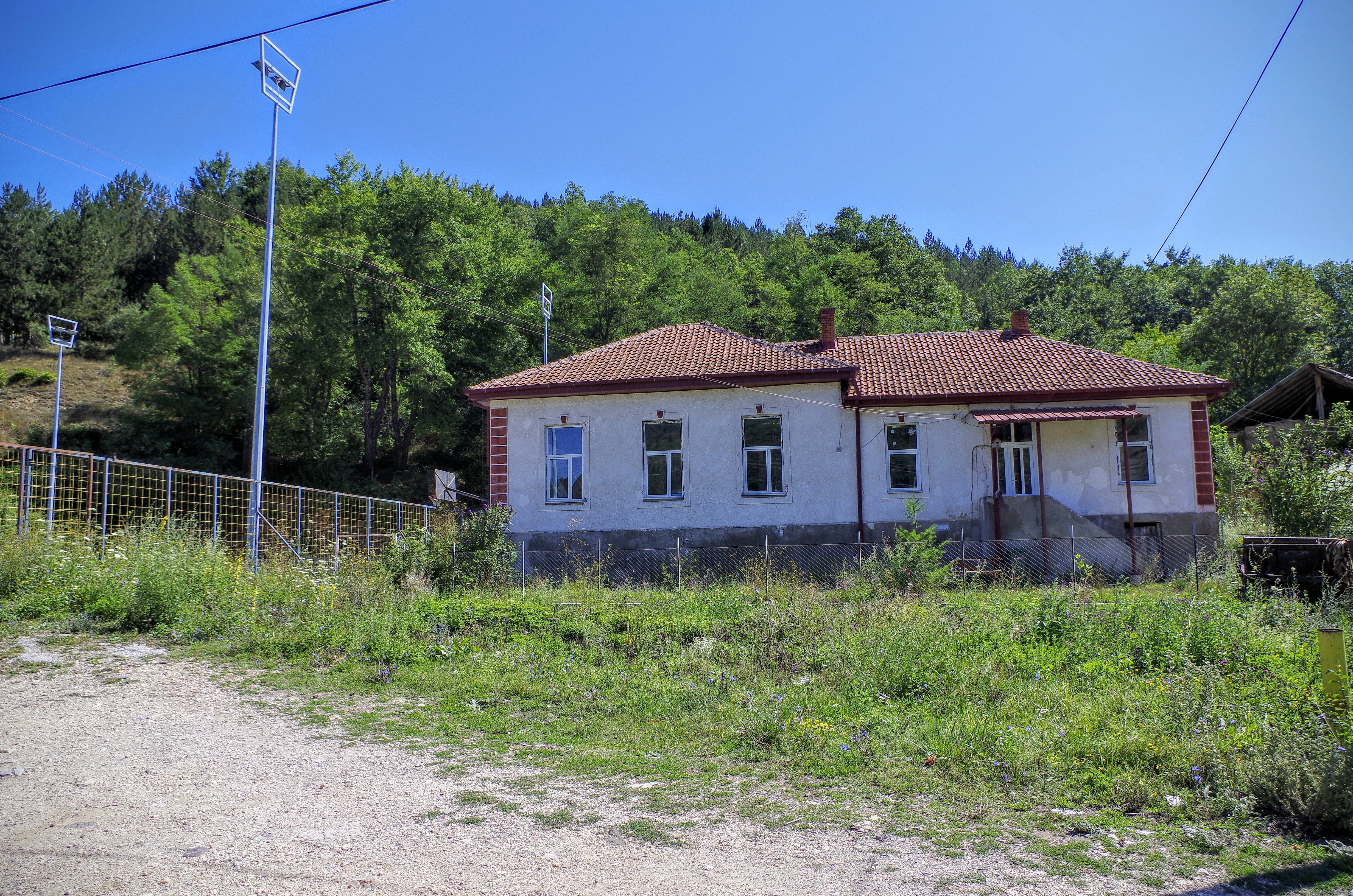 View of the primary school in the village Lešani, Macedonia